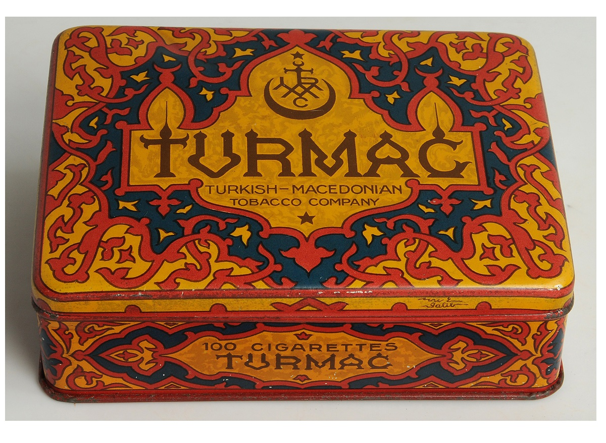 Cigarette box, Turmac, probably 1930's. Turkish-Macedonian Tobacco Company in Zevenaar (The Netherlands). Collection Historisch Museum Deventer (The Netherlands).